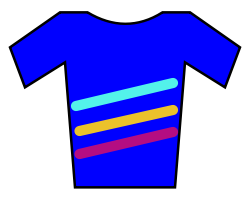 UCI Womens World Tour - Youth leader